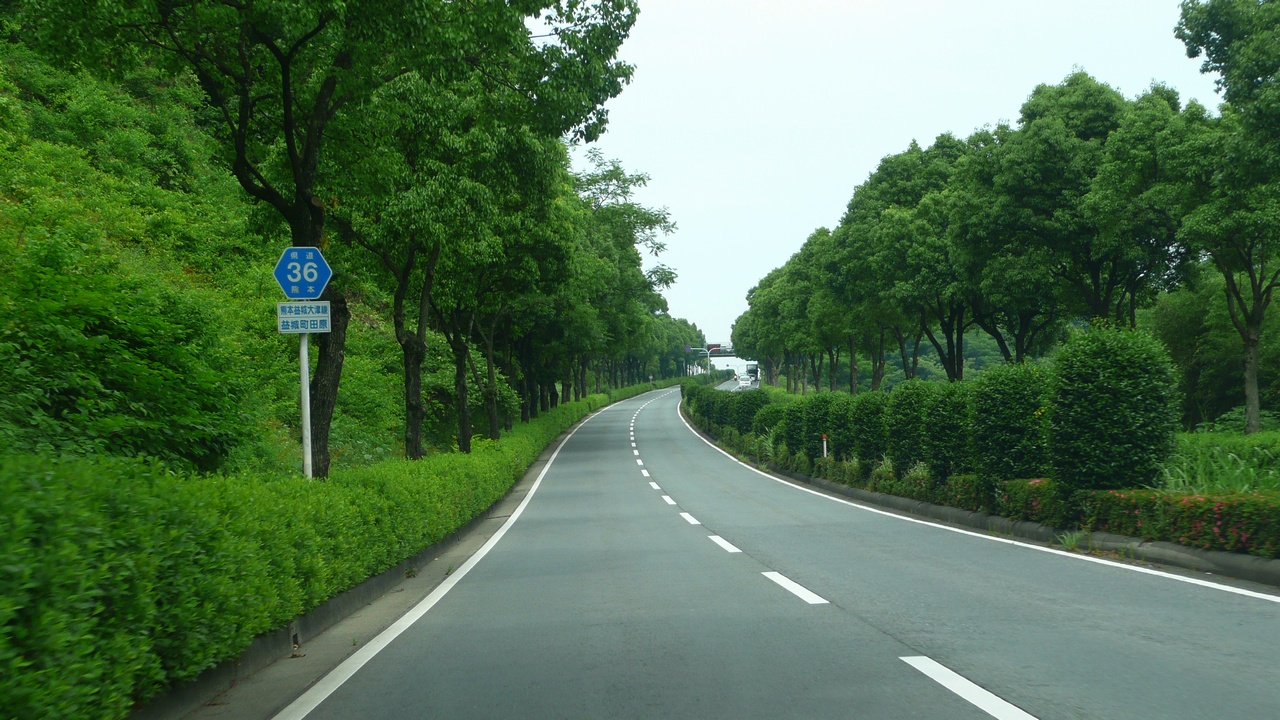 The Kumamoto Prefectural Road Route 36, also known as the Second Airport Line, in Mashiki Town, Kumamoto Prefecture, Japan)